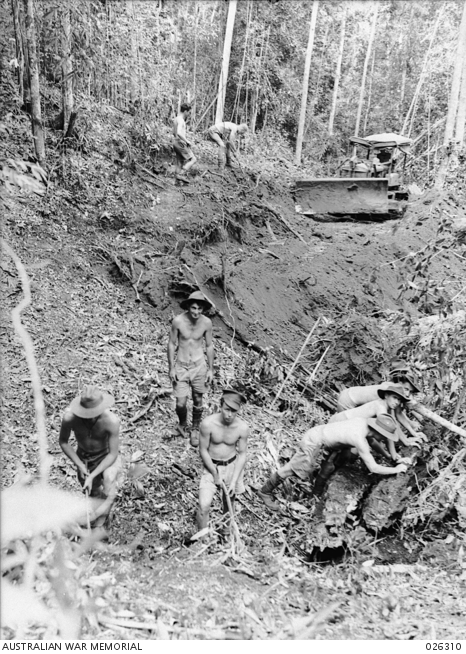 Sappers of the 2/14th Field Company improve the road between Port Moresby and Kokoda